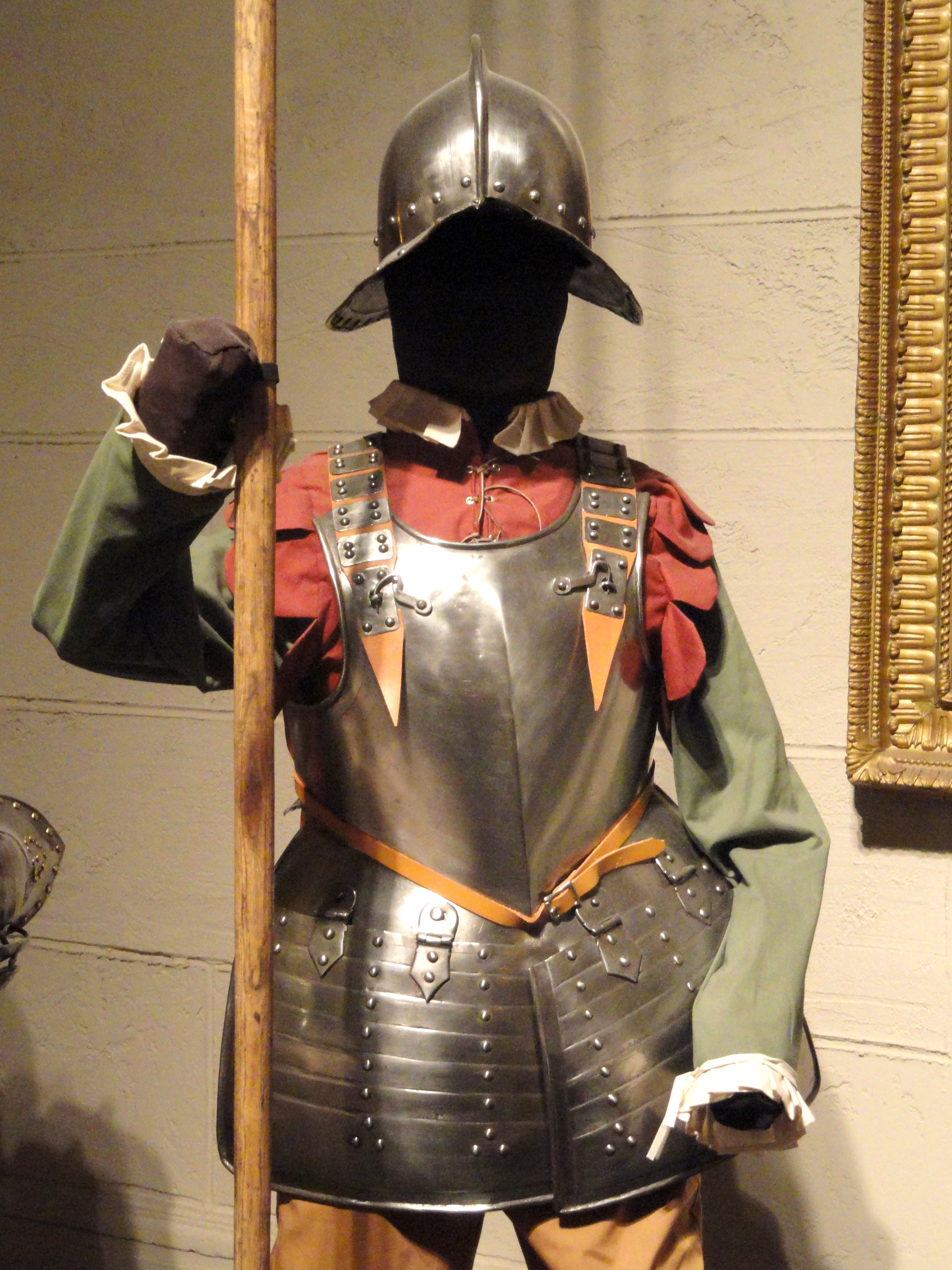 Exhibit in the Higgins Armory Museum, 100 Barber Avenue, Worcester, Massachusetts, USA. The museum permitted photography without any restriction, both in writing and when I asked verbally.